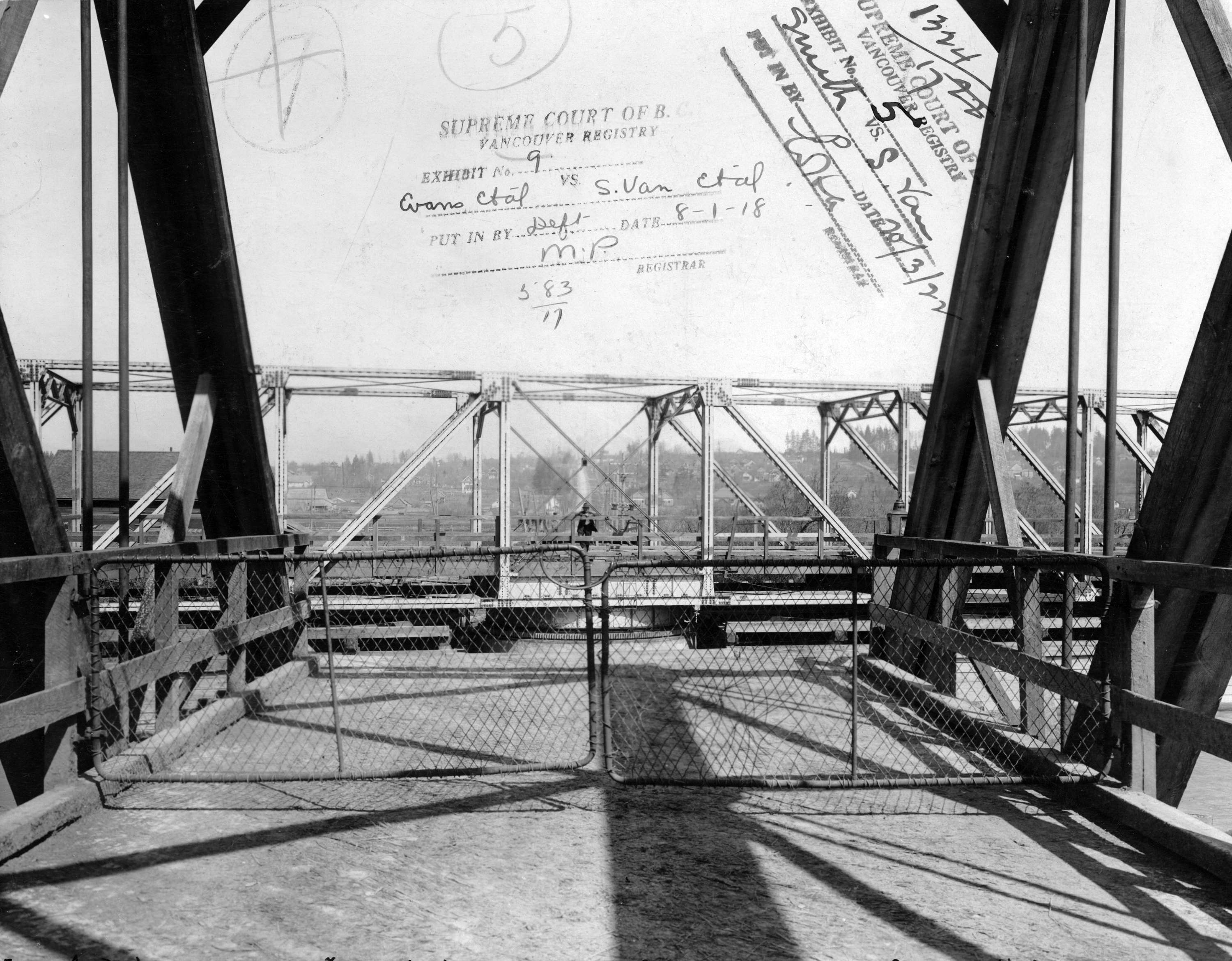 Fraser Avenue Bridge with roadway gate closed and swing span open